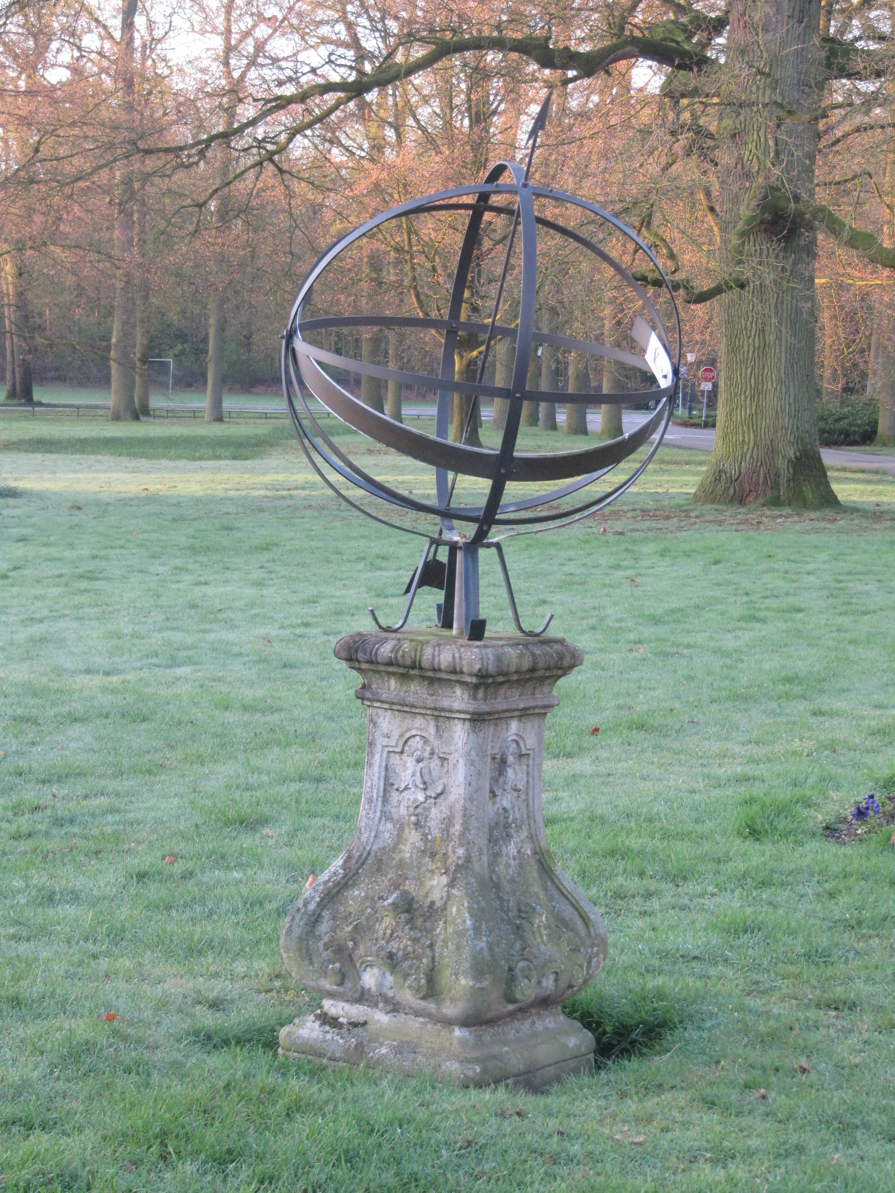 Sun dial in front of Jagtlust mansion at the Soestdijkerweg-Zuid in Bilthoven, The Netherlands